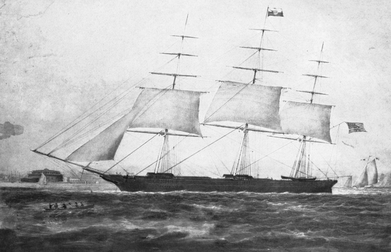 Comet, 1851 clipper ship